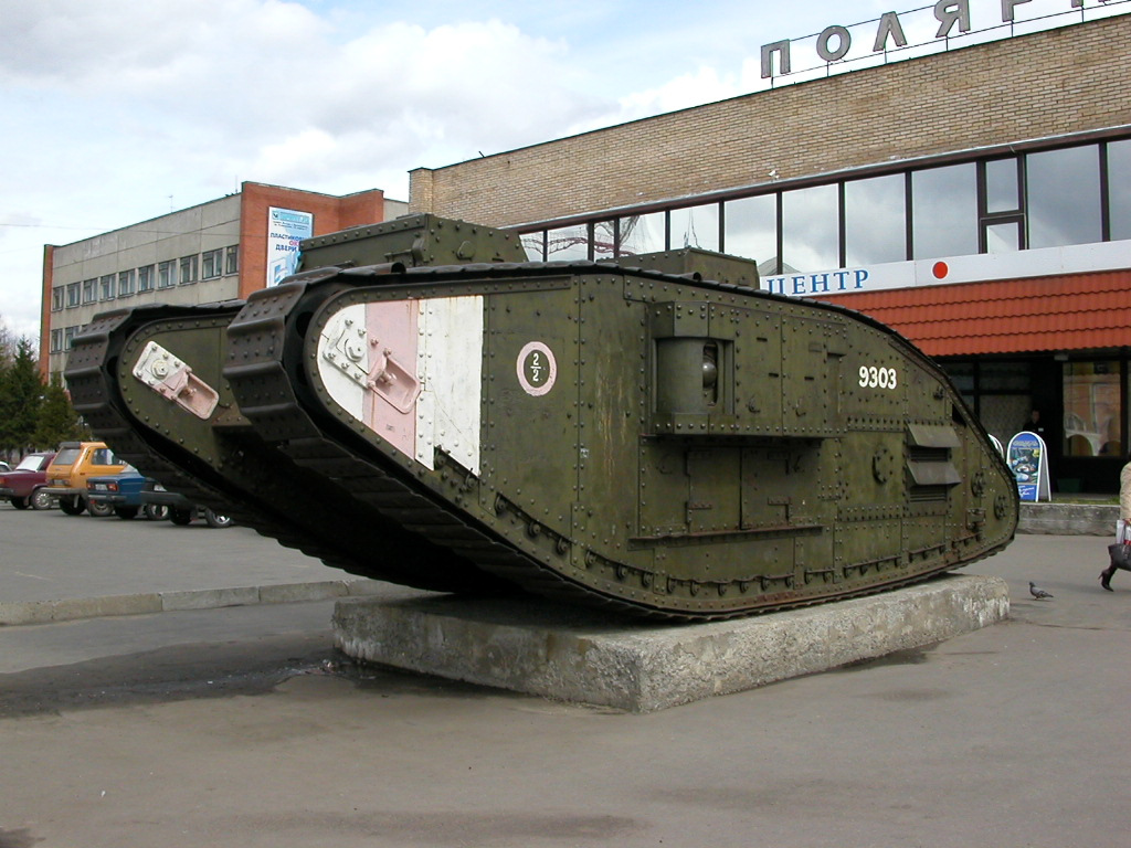 UK tank "Mark V" in Arkhangelsk, Russia